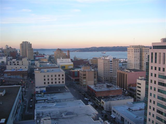 Picture of Tacoma, Washington (USA) in twilight